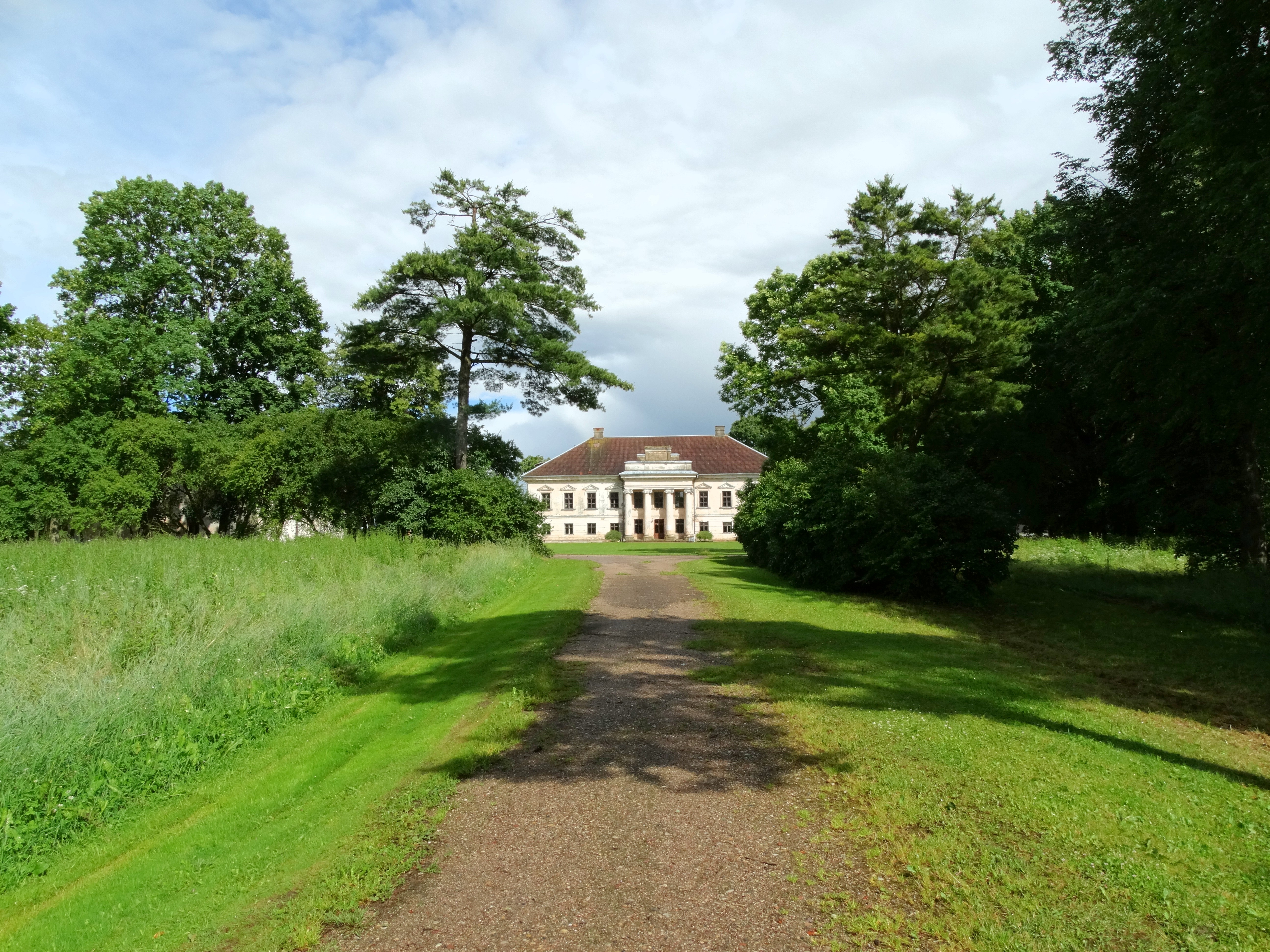 Žeimiai manor, park, Jonava district, Lithuania